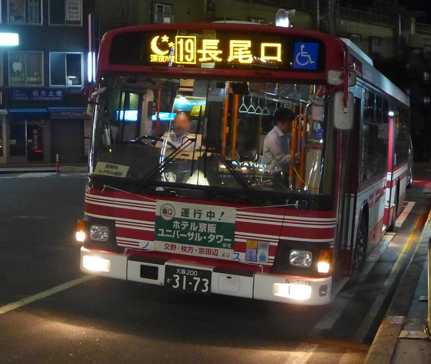 Hino Blue Ribbon for Keihan Bus Hirakata Depot N-3215 assigned to the midnight service for Nagaoguchi at Hirakatashi Station